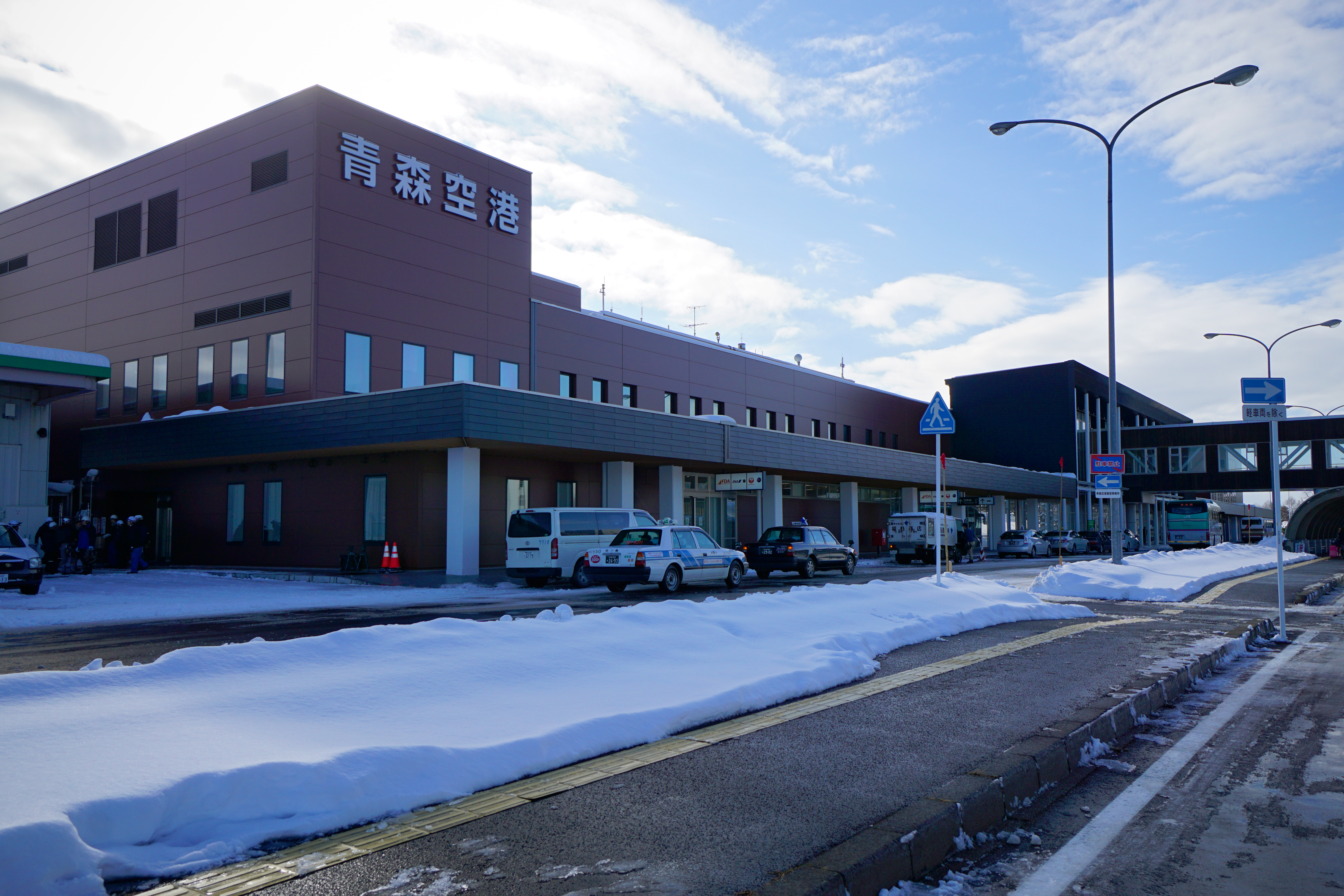 Aomori Airport in Aomori, Aomori prefecture, Japan